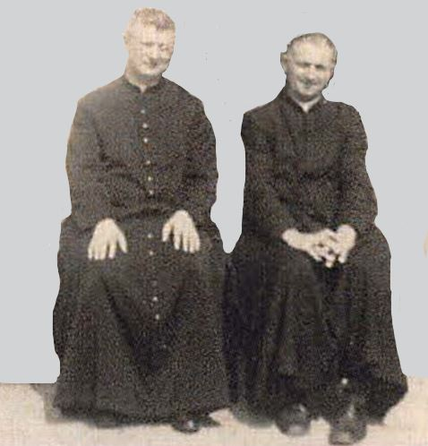 Don Palo Arnaboldi (left) and the philosopher Tommaso Demaria (right) portrayed at a course of the Fraterno Aiuto Cristiano (Fraternal Christian Help) FAC in 1959. Digitally reconstructed portrait